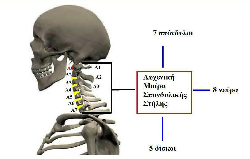 Neck anatomy